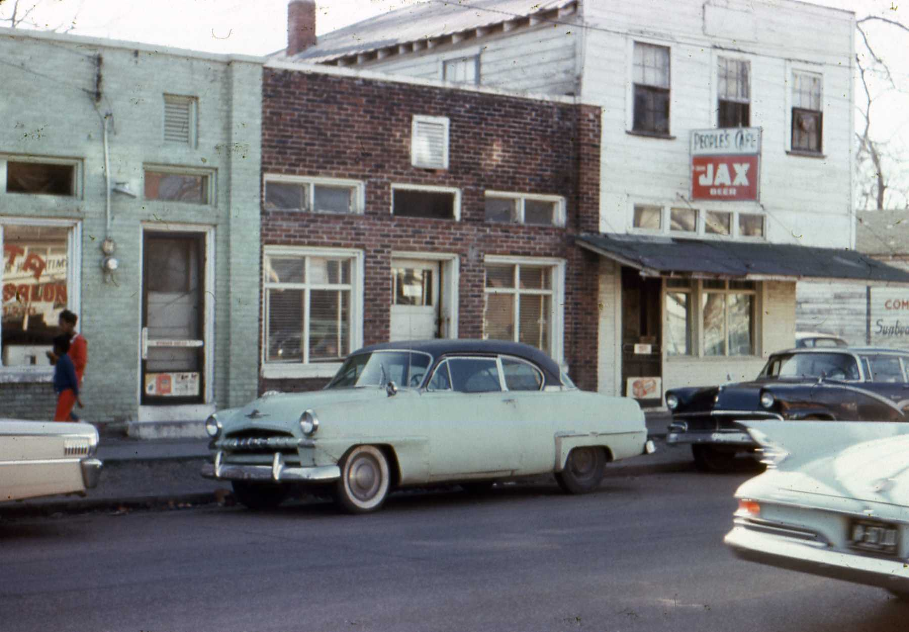 Greenville, Mississippi. Street scene, circa 1966. Note "JAX Beer" sign; must have been fairly new at the time as 1966 was the year Mississippi repealed prohibition.